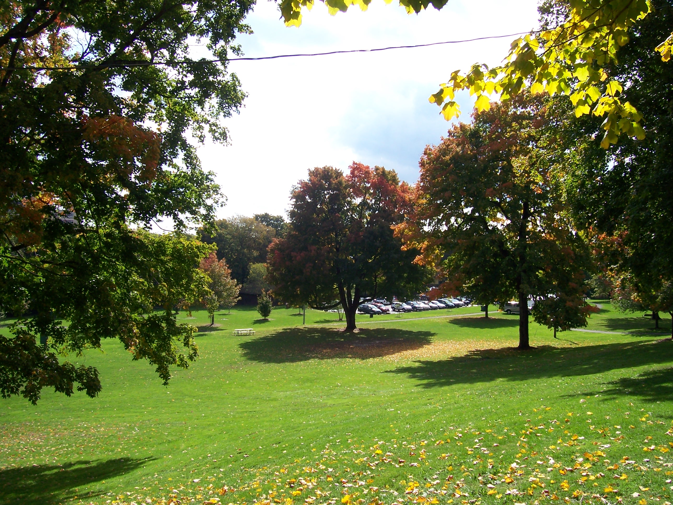 Maplewood Park in Rochester, New York as viewed from its northwest corner